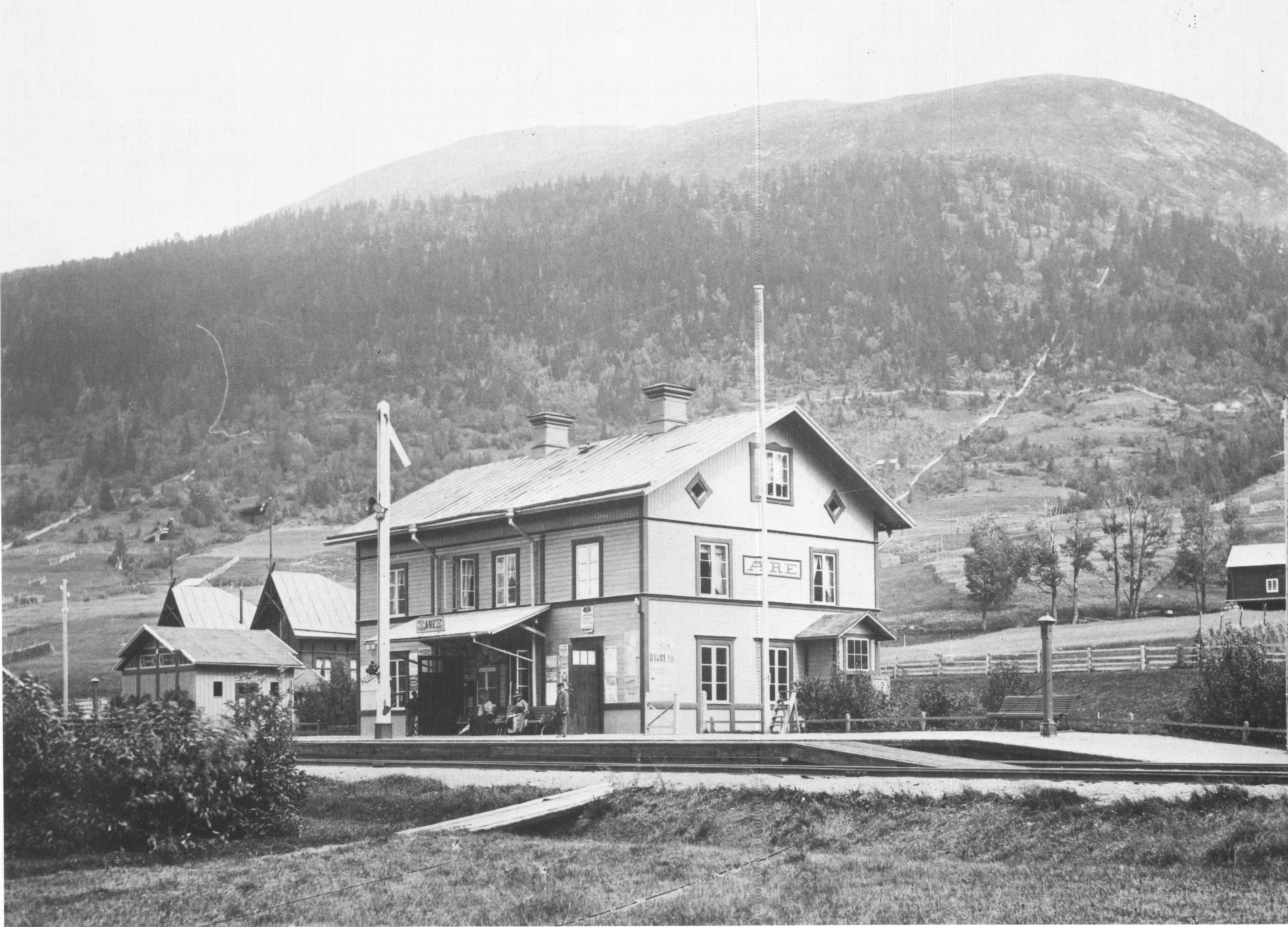 Åre railway station, built in 1881. This photo is from the 1890s. Behind the station is Mount Åreskutan.